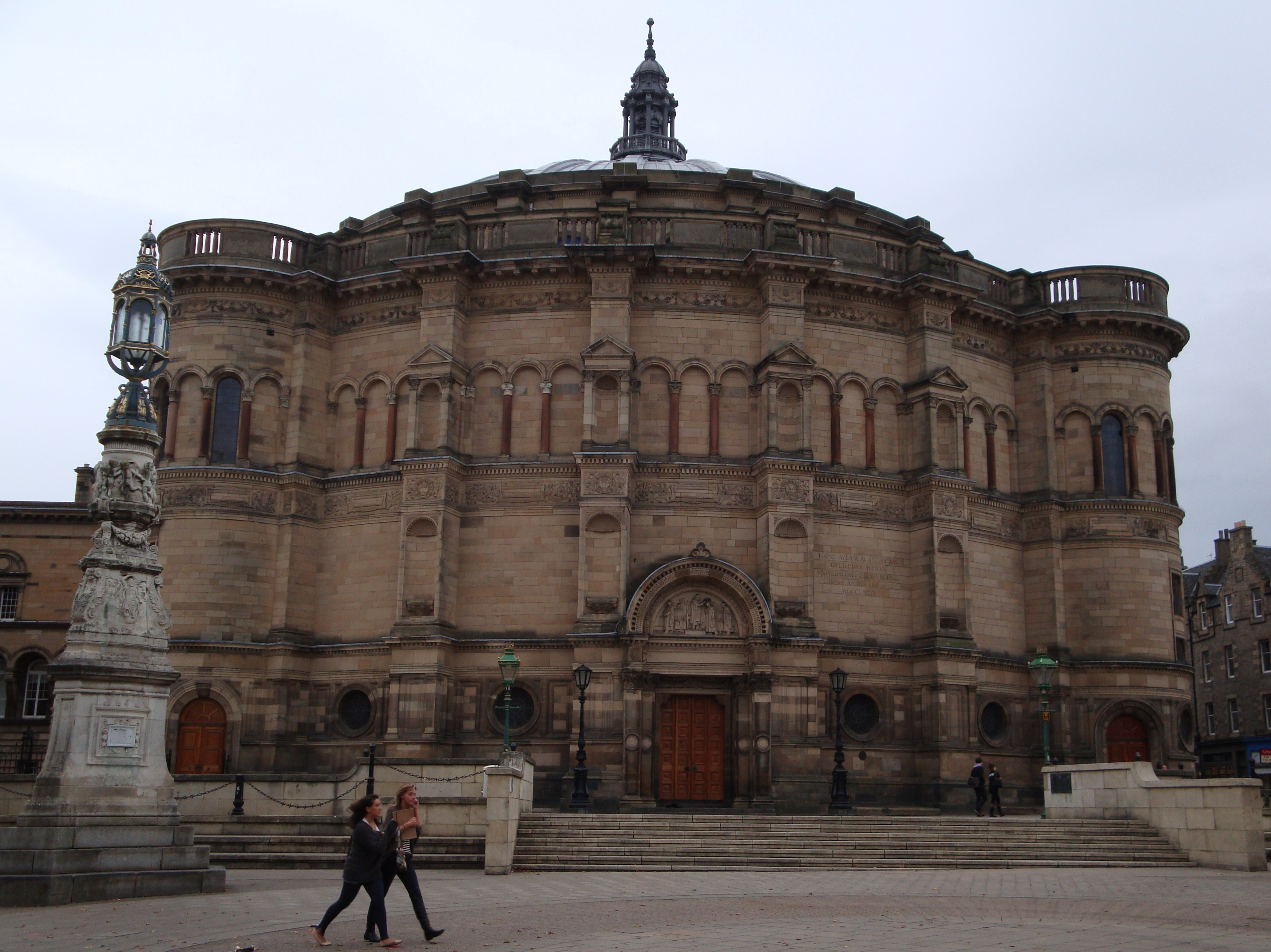 The Edinburgh University Graduation Hall, McEwan Hall.